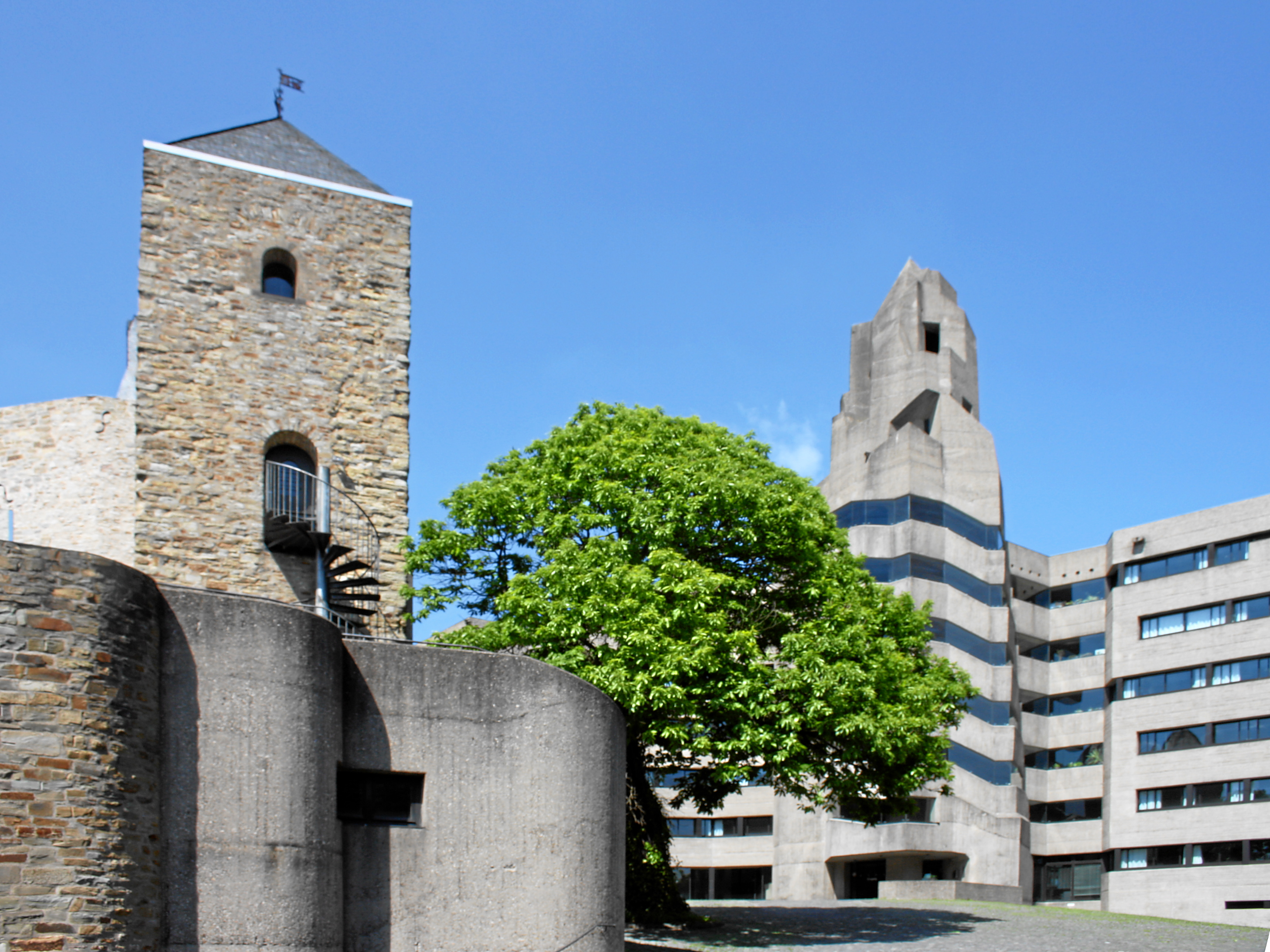 Bergisch-Gladbach-Bensberg, Germany. Old castle of the counts of Berg (left) with 1960's extension (town hall) from Gottfried Böhm, view from the yard.